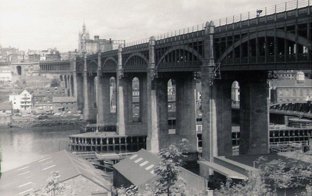 High Level bridge Built by Robert Stephenson, this structure carries both road and rail traffic.